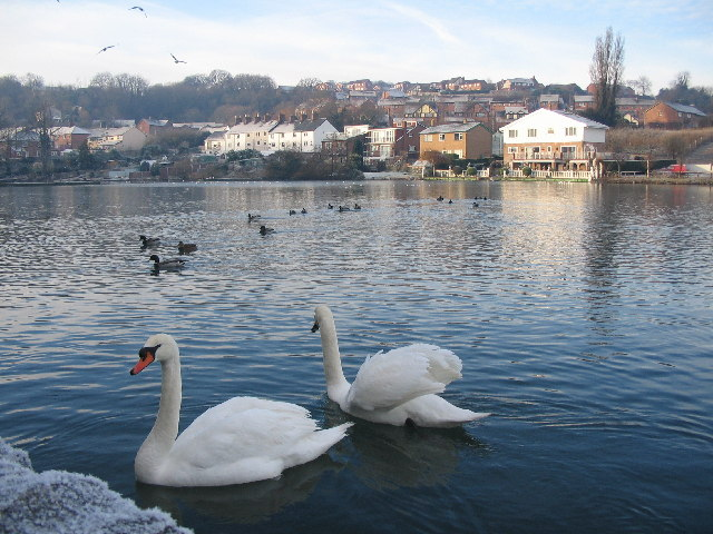 Mill Pond, Greenfield Valley Heritage Park. Looking southwest across one of the millponds at the Greenfield Valley Heritage park on a chilly December morning.